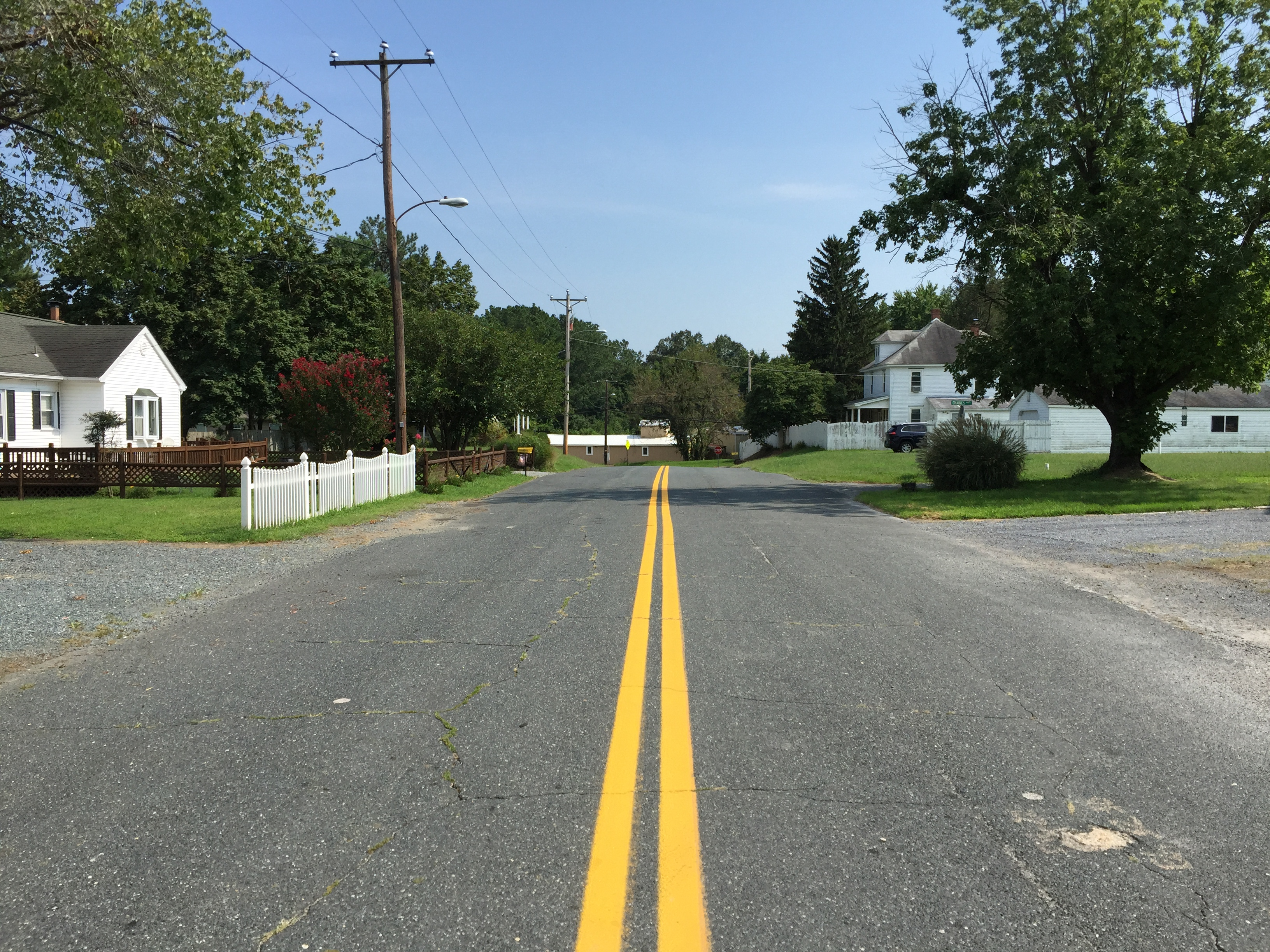 View south along Maryland State Route 518 (First Street) at Chaires Alley in Queen Anne, Talbot County, Maryland